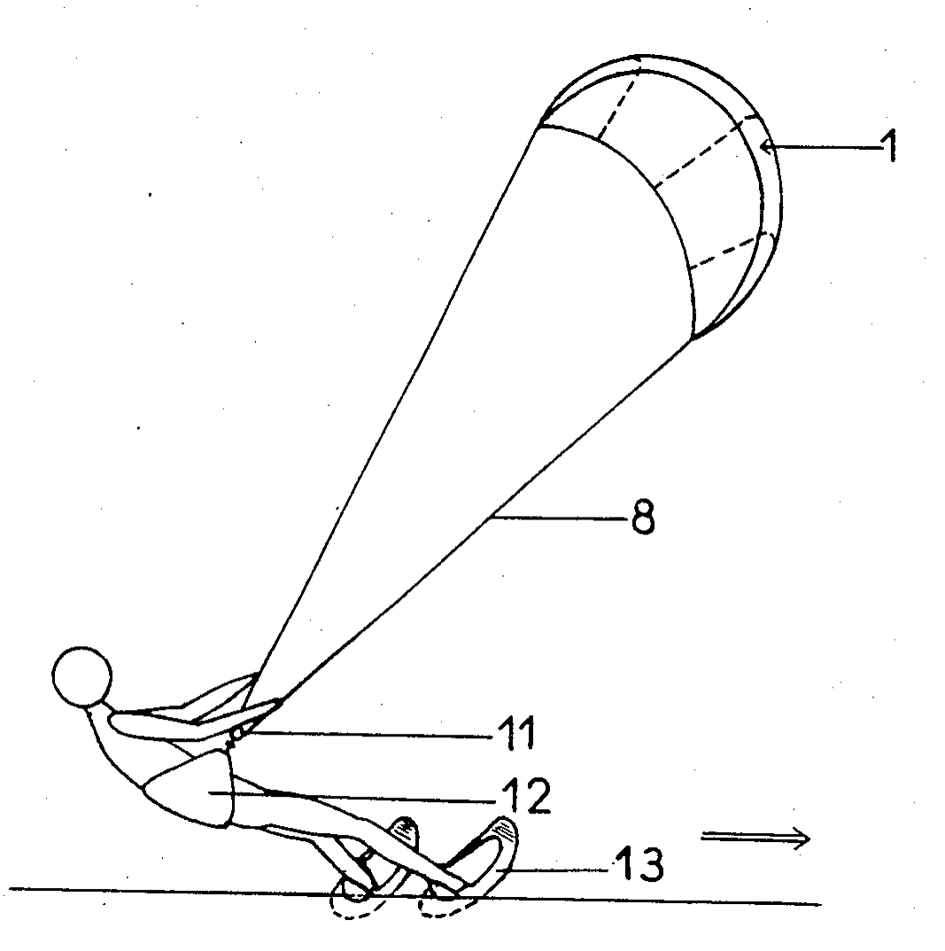 "Propulsive wing with inflatable armature. [...] The wing can be used in sliding sports, yachting and gliding." This work is in the public domain because it was published in the United States between 1978 and March 1, 1989 without a copyright notice, and its copyright was not subsequently registered with the U.S. Copyright Office within 5 years. Unless its author has been dead for several years, it is copyrighted in the countries or areas that do not apply the rule of the shorter term for US works, such as Canada (50 pma), Mainland China (50 pma, not Hong Kong or Macau), Germany (70 pma), Mexico (100 pma), Switzerland (70 pma), and other countries with individual treaties. See this page for further explanation.